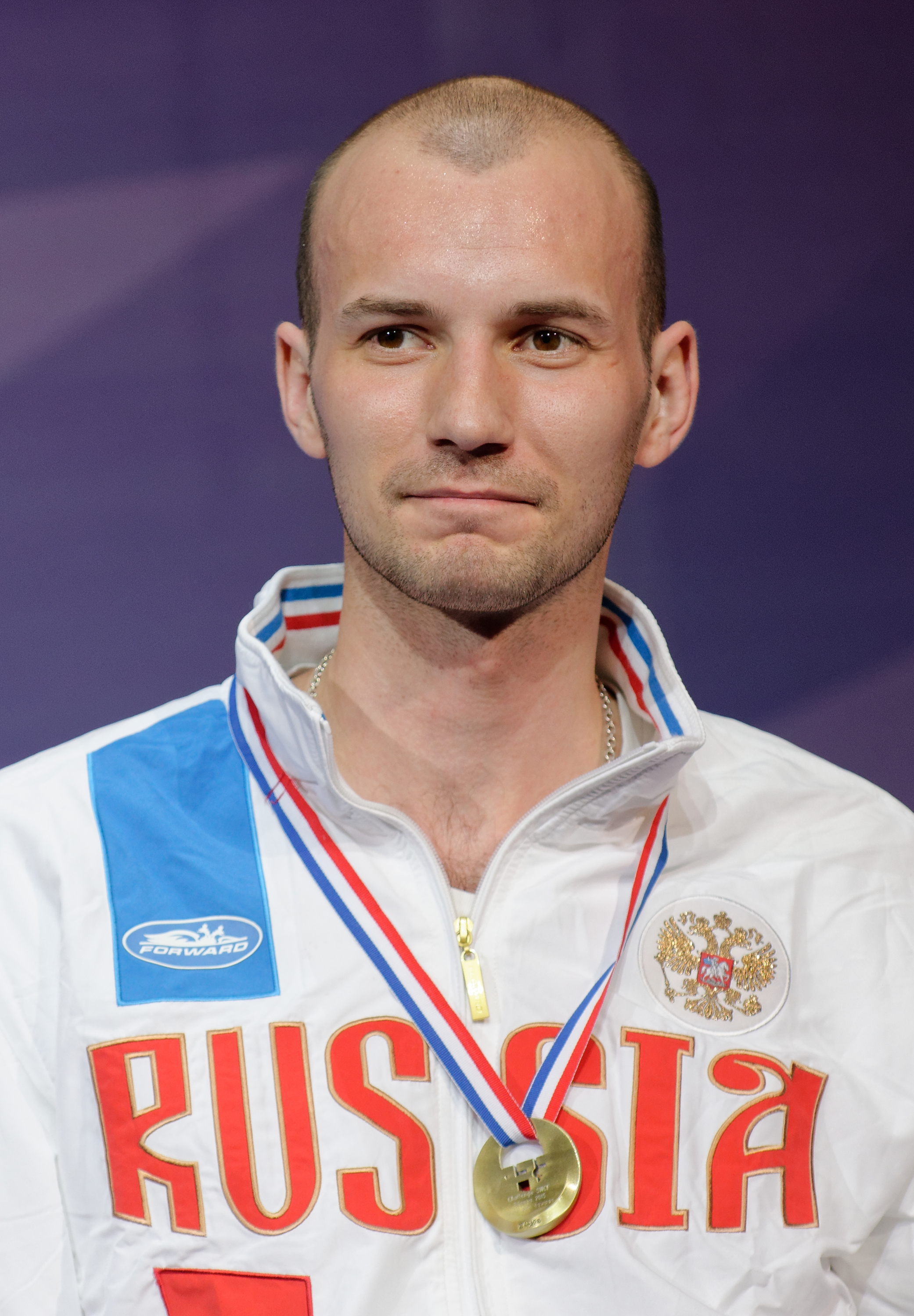 Russia's Sergey Khodos at the Challenge SNCF Réseau-Trophée Monal 2015, a stage of the men's épée World Cup.